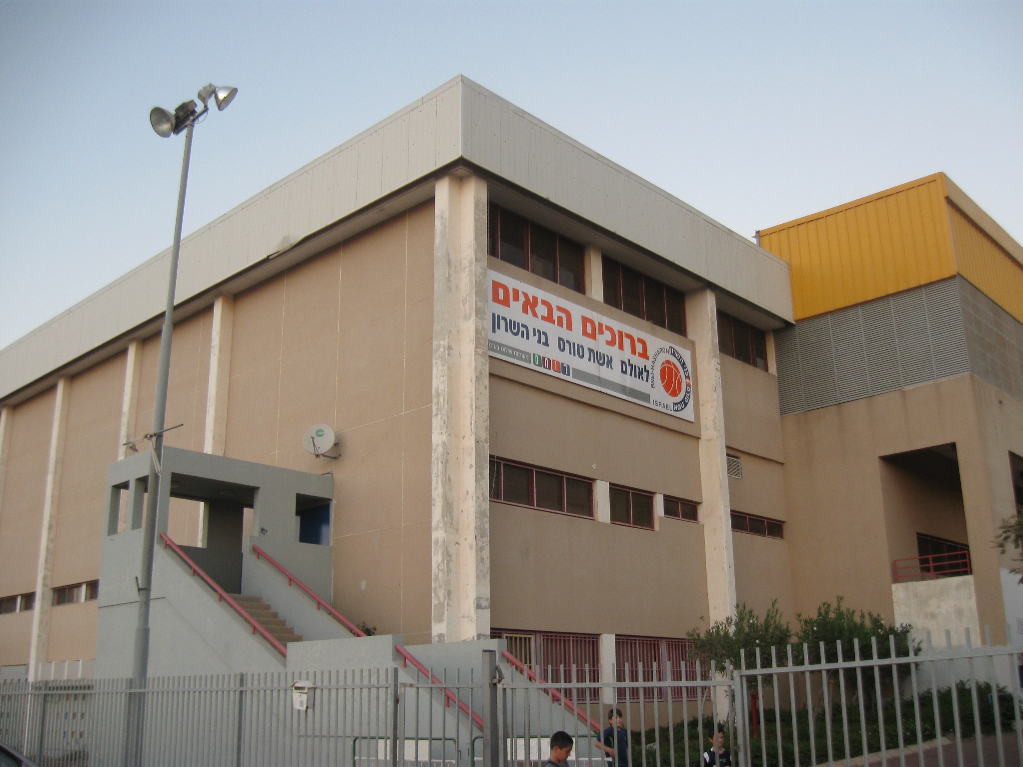 hayovel sport hall